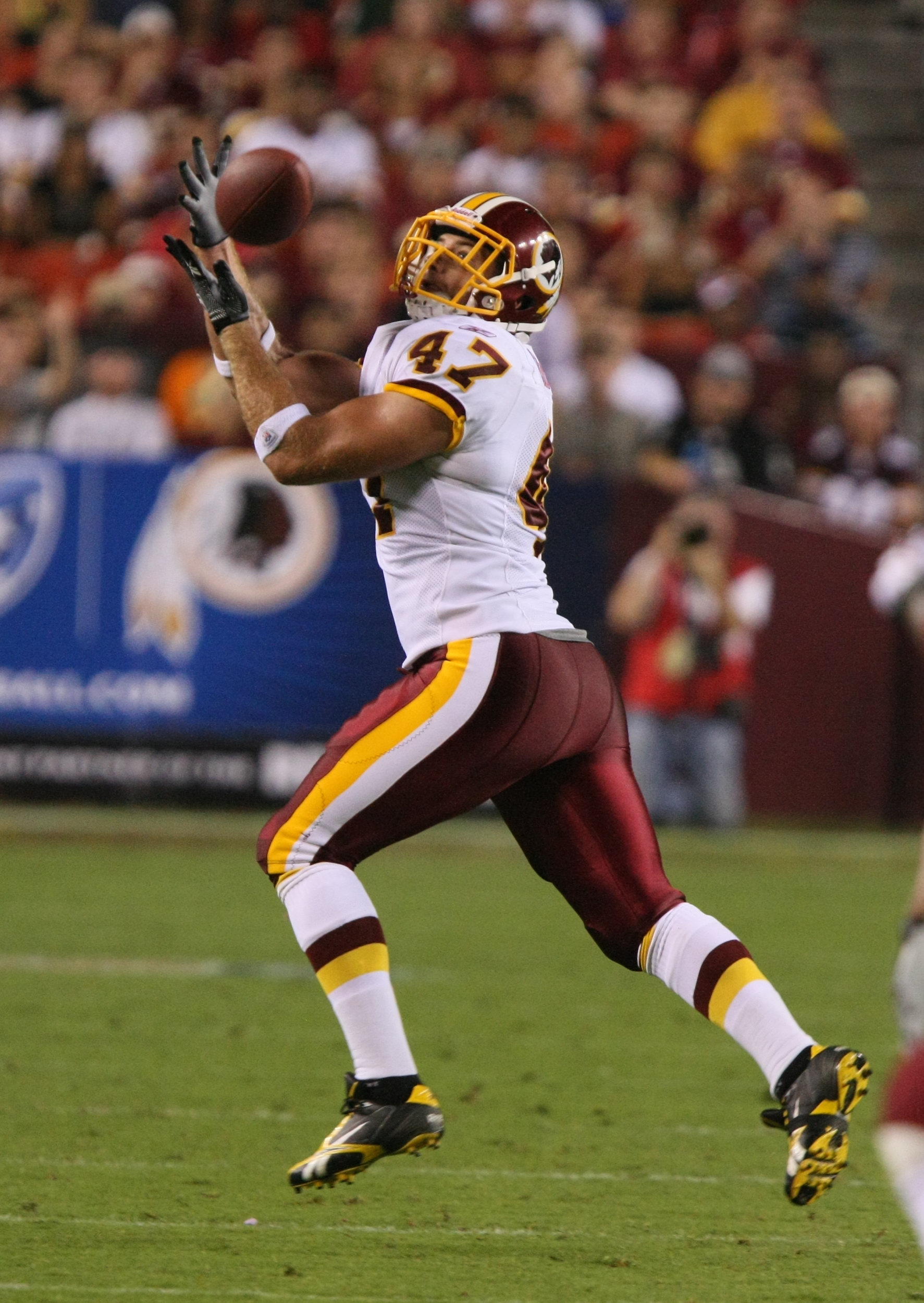 Chris Cooley playing in the Washington Redskins vs New England Patriots 2009 preseason game